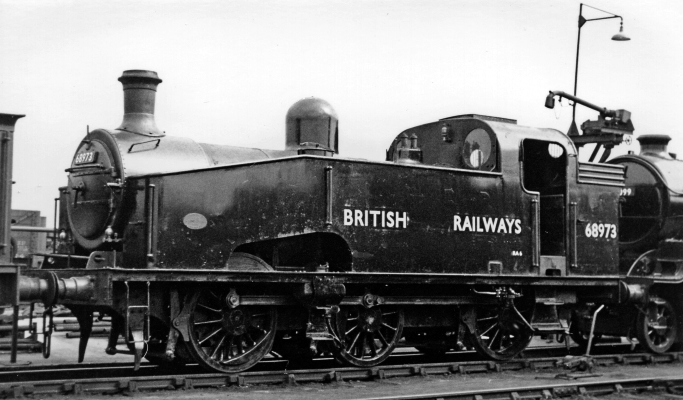 A J50 0-6-0T at Doncaster Locomotive Depot, fresh from repair at Doncaster Works. Doncaster Locomotive Depot handled all the many engines built new or repaired at the ex-Great Northern Works (the Plant) and several were normally to be seen lined up in the Locomotive Yard: about 10 of the 156 on Shed that Sunday were ex-Works. No. 68973 was a steam-brake only J50/3, built in 1930 to the Gresley group-standard design and in 1949 was allocated to Frodingham. (See also SE5701 : Doncaster Locomotive Depot).